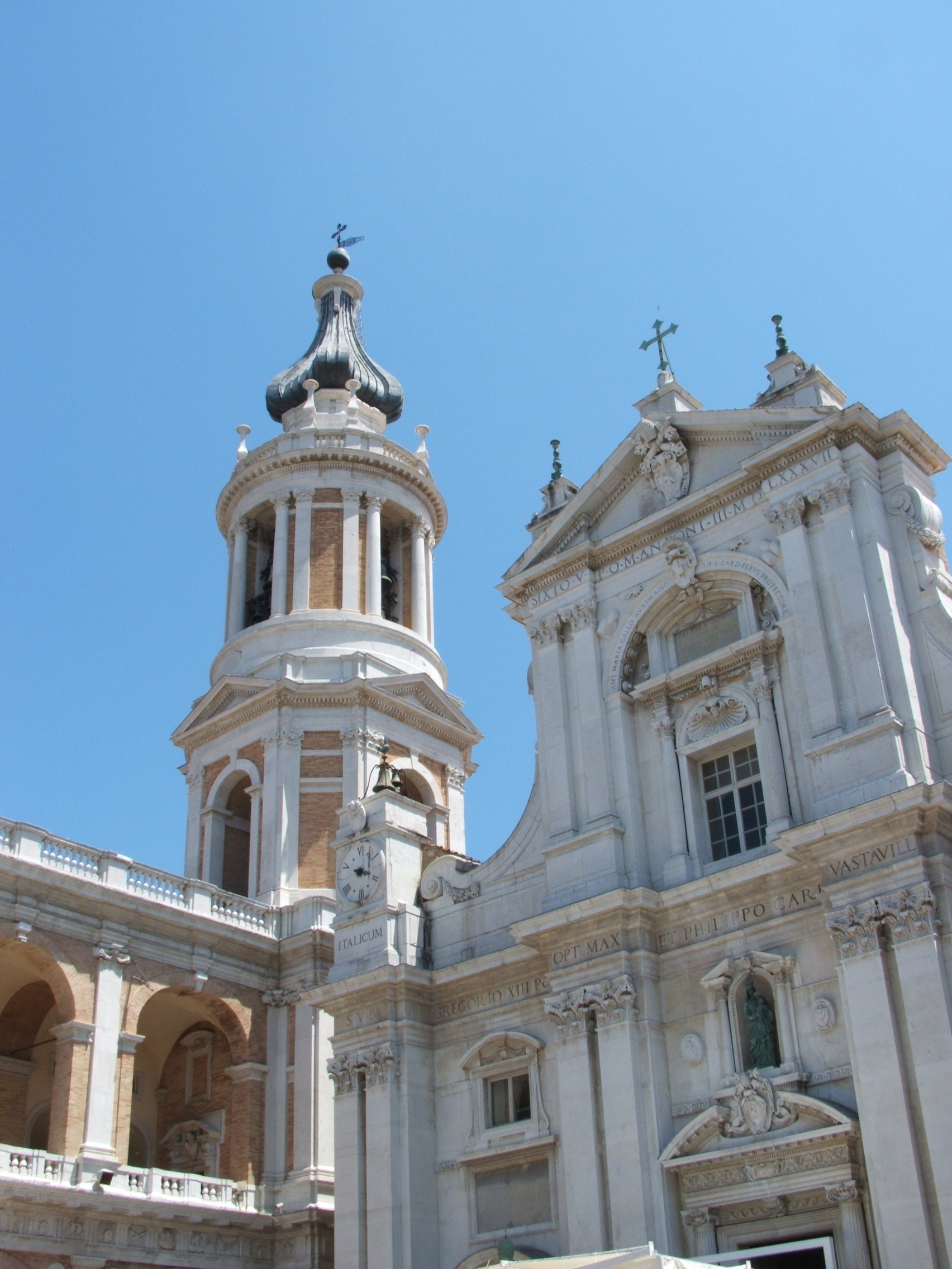 Loreto (AN), Italy - Church tower (1750-1755) by Luigi Vanvitelli and facade of Basilica della Santa Casa